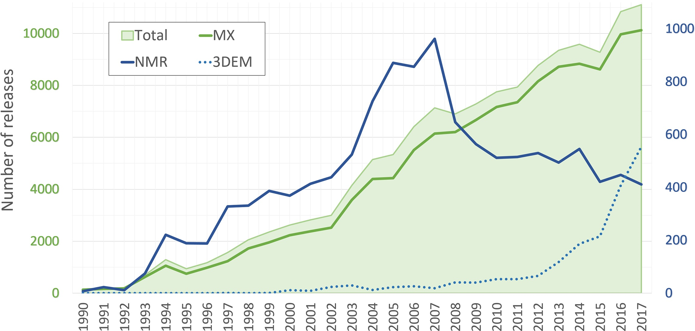 Number of PDB structures released annually. All PDB Core Archive structures are indicated with light green shading, and MX structures are shown with a solid green line, plotted with respect to the green primary axis (left). NMR structures (blue solid line) and 3DEM structures (blue dashed line) are plotted with respect to the blue secondary axis (right). 10.1093/nar/gky949